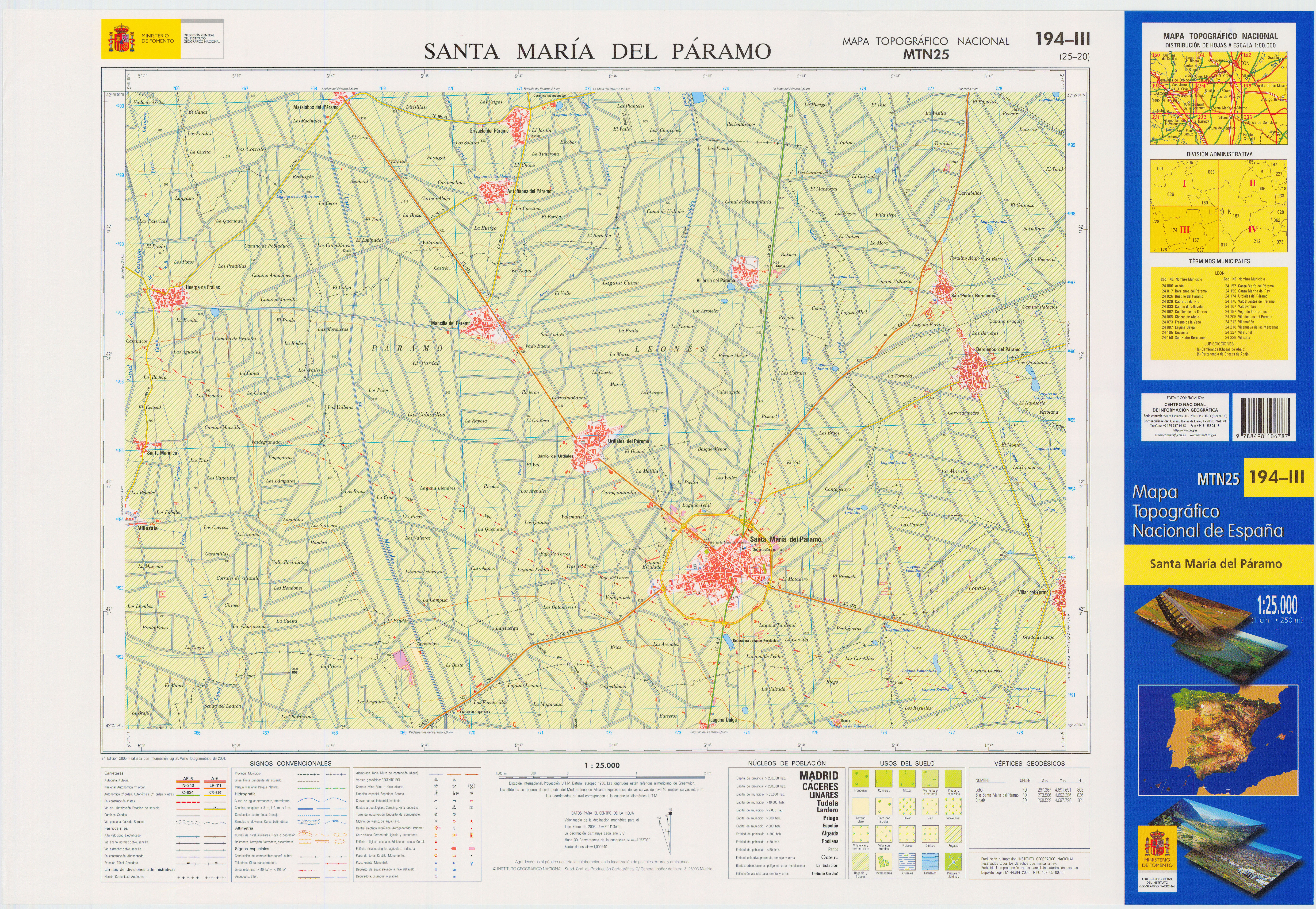 Fragment 0194c3 of the National Topographic Map of Spain in 2005 at a scale of 1:25000 printed and scanned with a resolution of 250 ppi. It shows Santa Maria del Paramo.